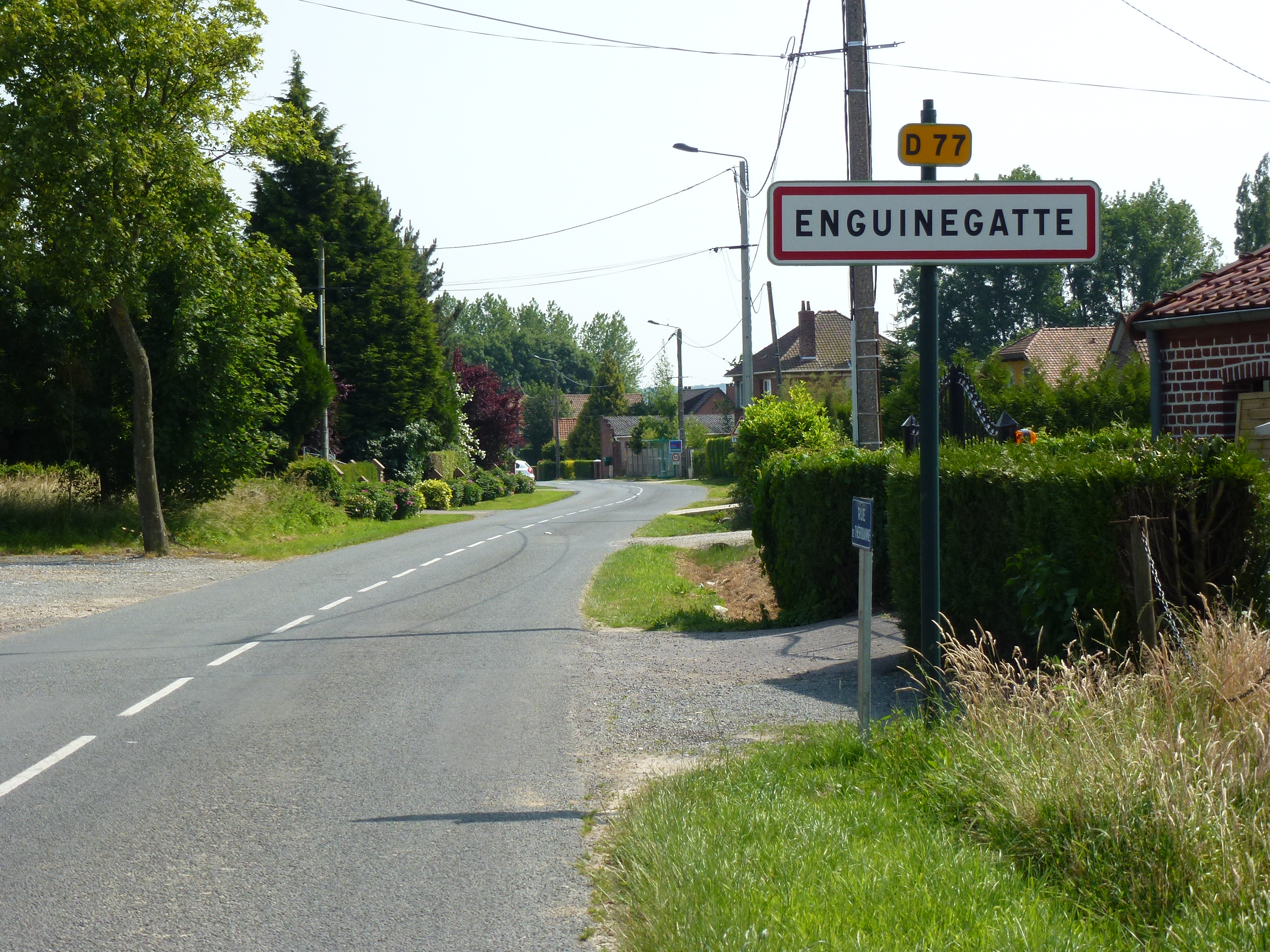 Enguinegatte (Pas-de-Calais, Fr) city limit sign